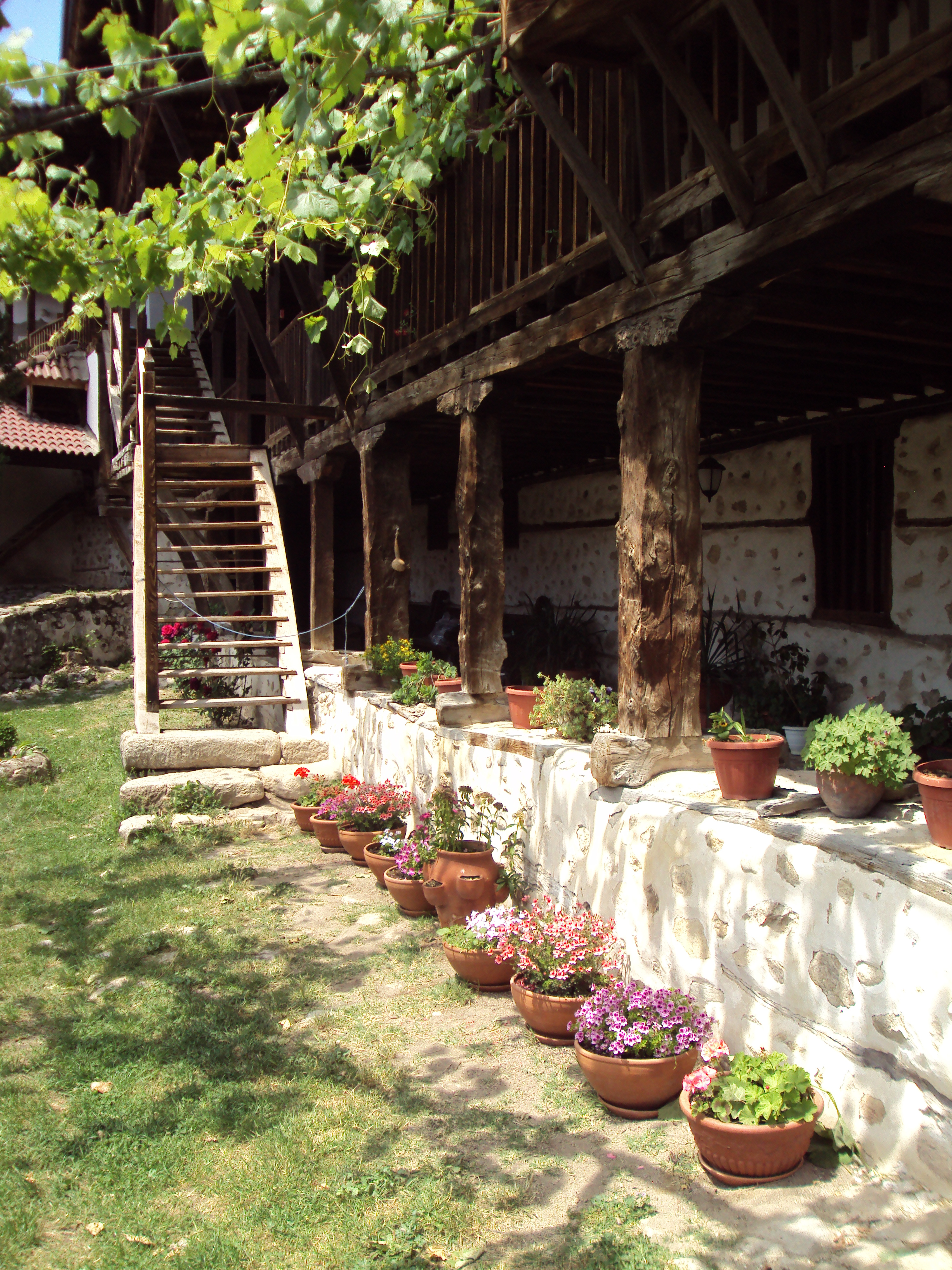 Rozhen Monastery